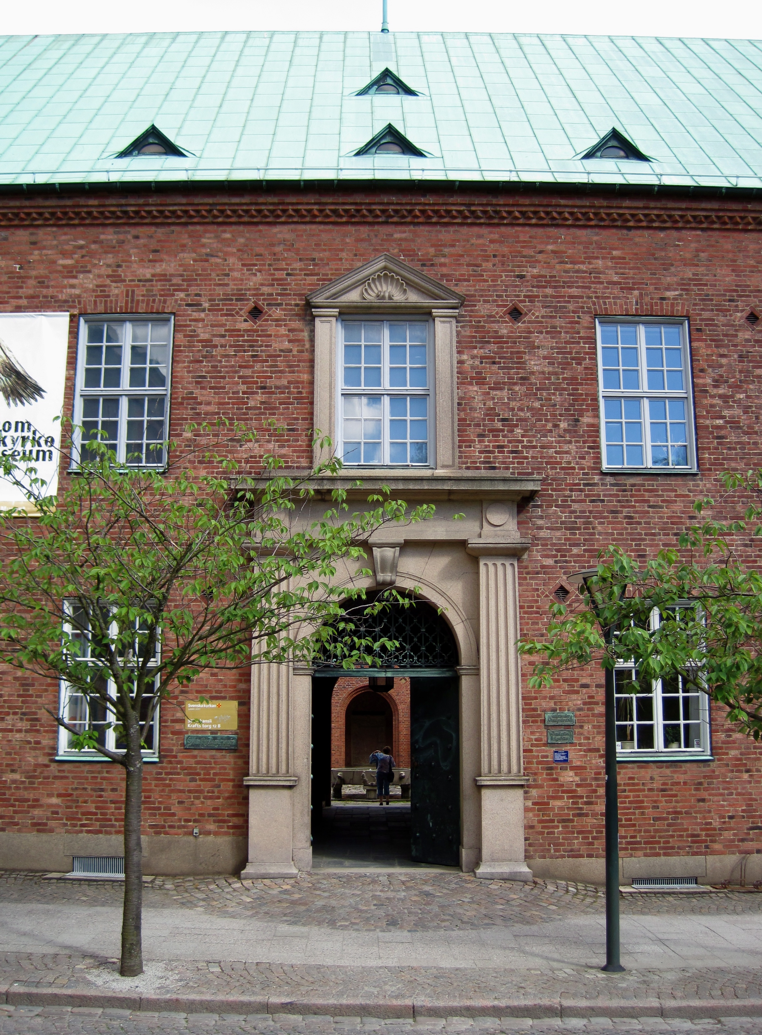 The entrance to the courtyard of the chancellery of the Diocese of Lund at Krafts Torg in Lund, Sweden.